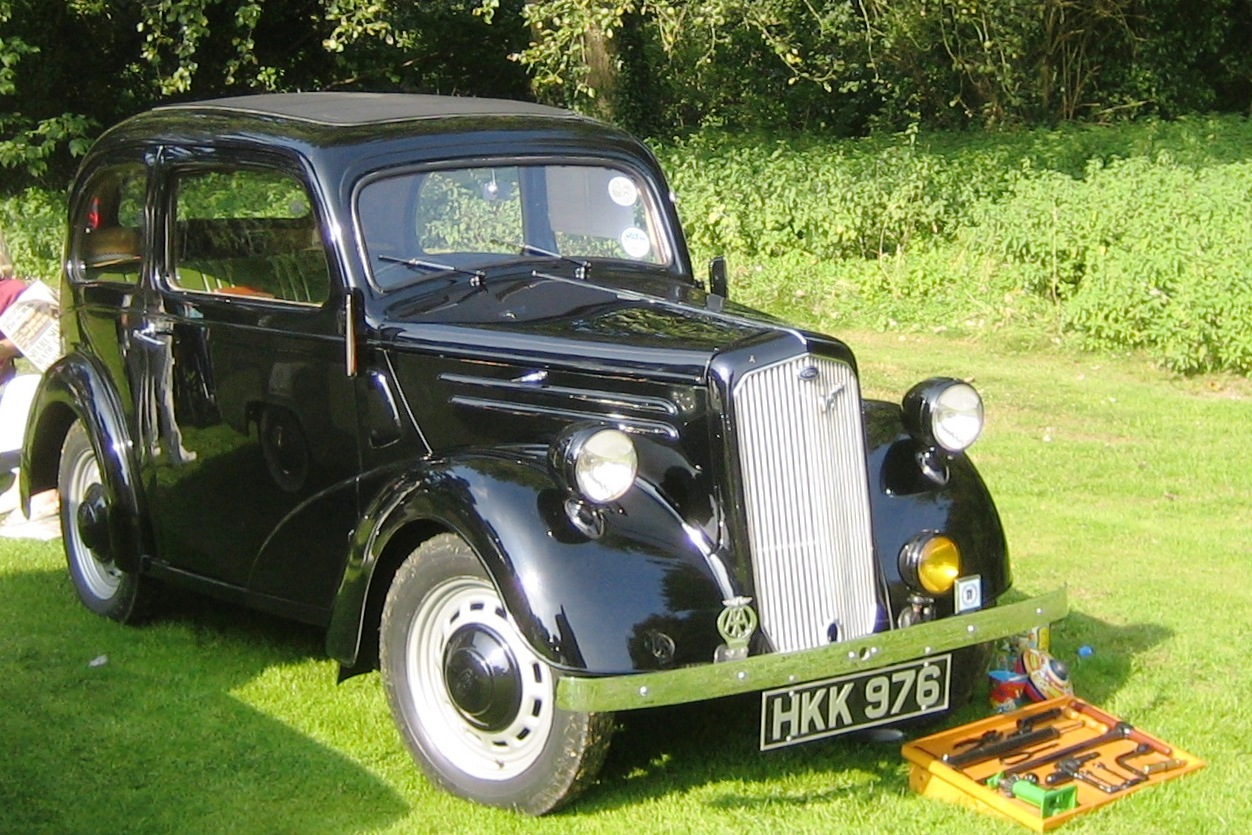 Ford Anglia E04A in Autumnal morning sunshine at Oldtimerfest in Castle Hedingham. Unusually, flashing indicators have NOT been retrofitted on this car which instead features contemporary 'semaphore' style trafficators. The car was first registered 1946 according to the relevant UK government database, which makes it three years older than I had first thought.